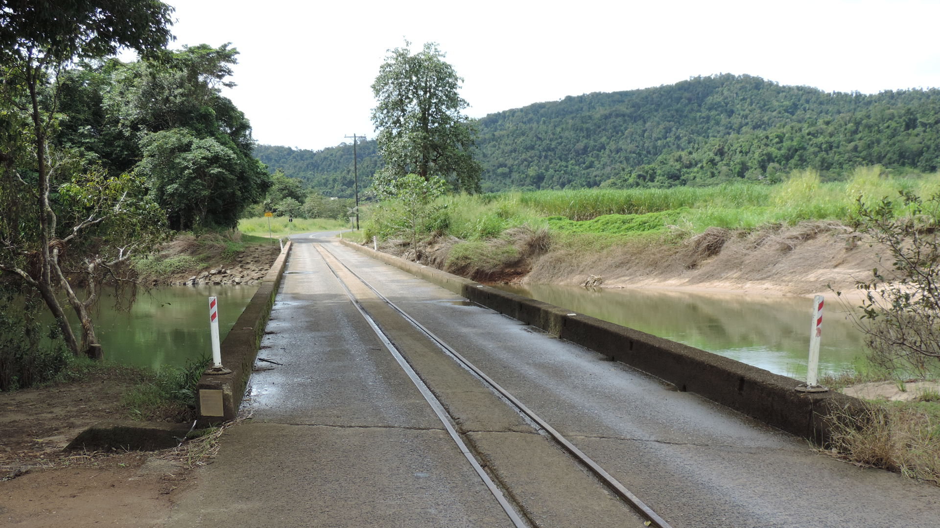 Single lane bridge for road vehicles and cane trains across the Russell River between Babinda (foreground) and East Russell (background), 2018